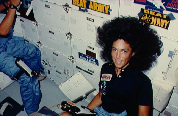 View of Mission Specialist Judith Resnik sitting on the floor of the middeck. Beside her on a notebook is a note which says "Hi Dad". Above her head on the middeck lockers are various stickers such as "Beat Army", "Beat Navy" and "Air Force: a great way of life". Beside her is a [sticker] which reads "I love Tom Selleck".